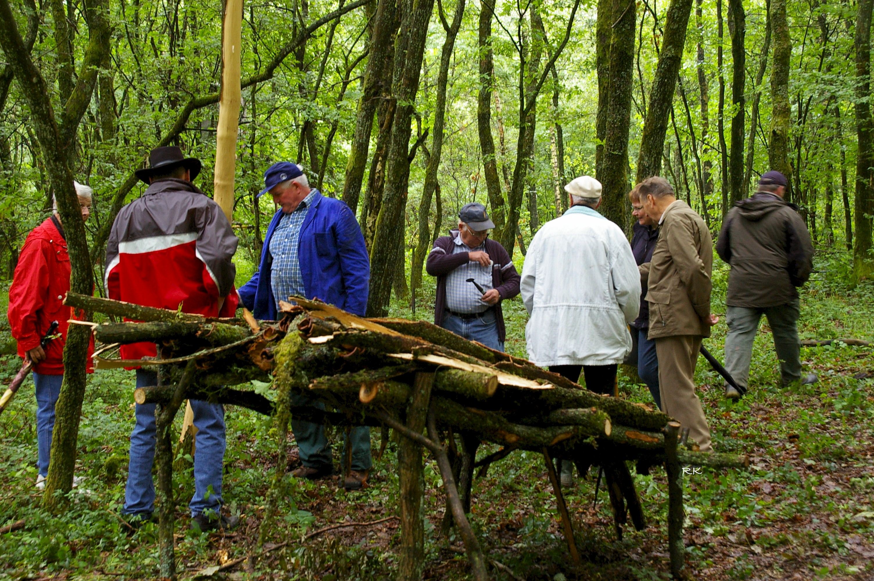 Frame for drying peeled oak bark